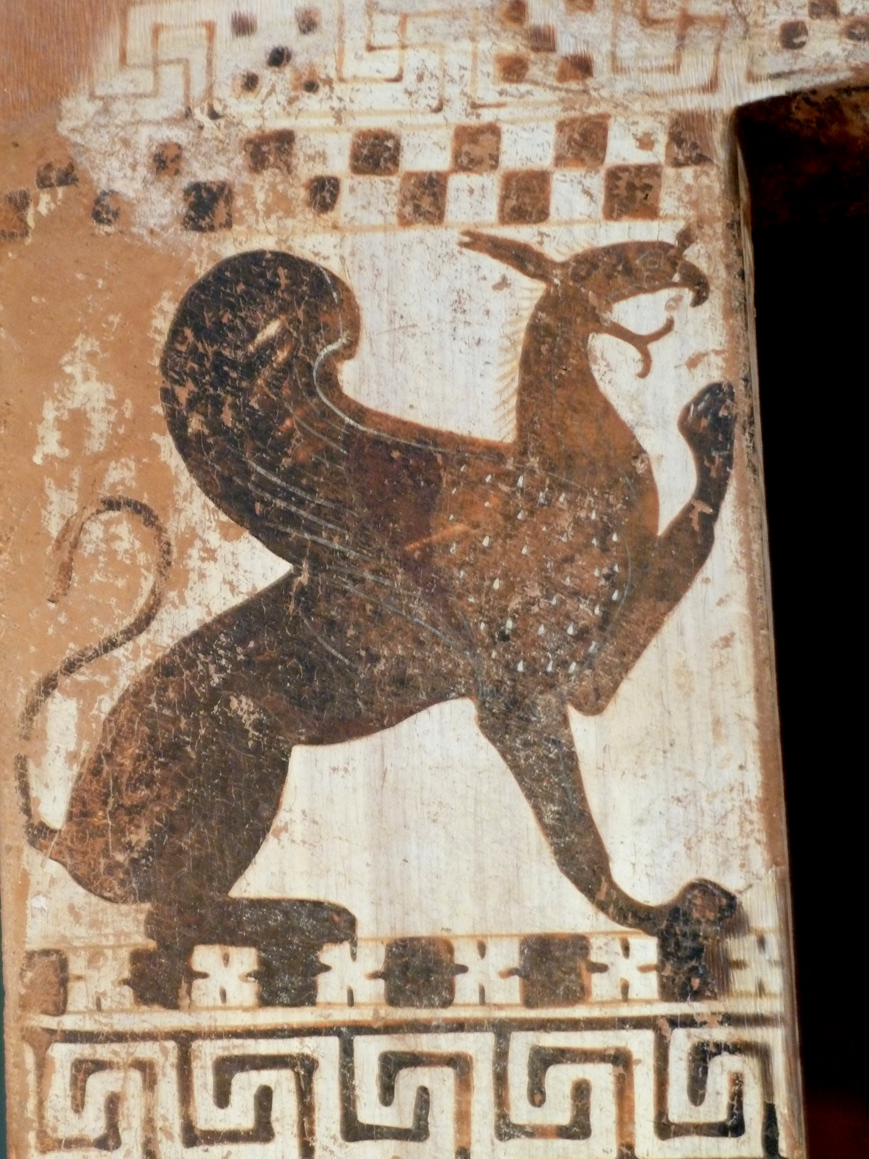 Gryphon detail on Sarcophagus (Klazomenian, 480-470 BC) - Terracotta.